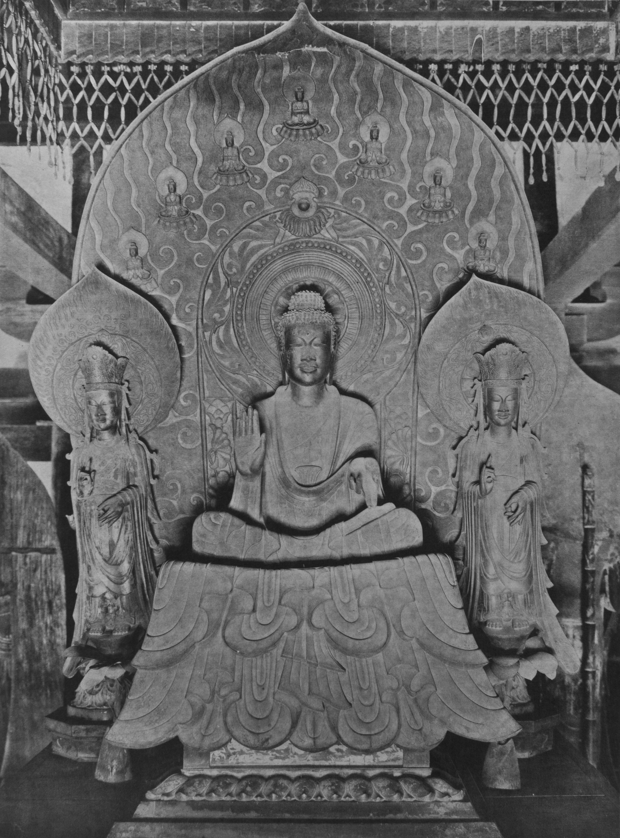 Horyuji, Nara, Japan